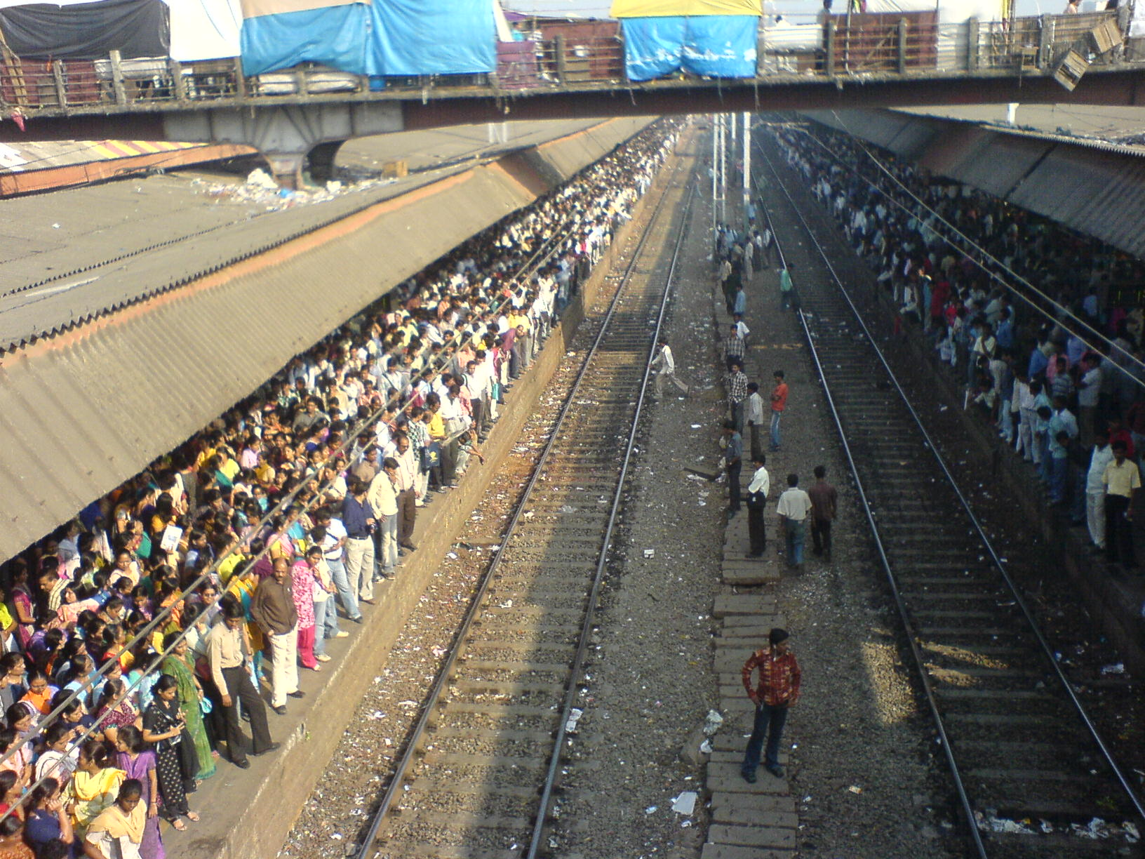 Crowds on both sides of the railway track (and some in the middle)More of the morning rush...